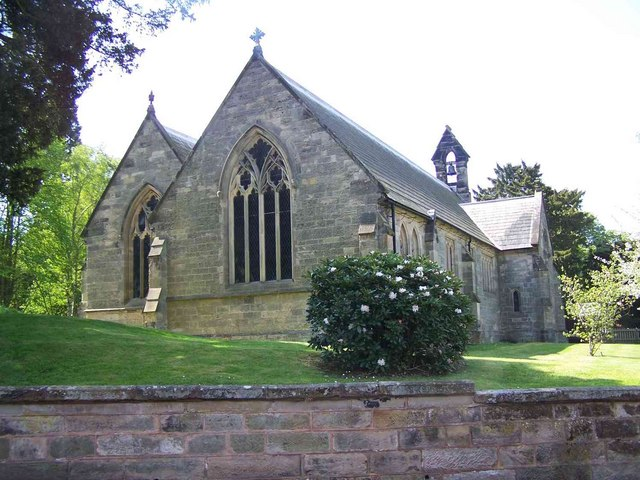 Great Haywood Church (C of E)